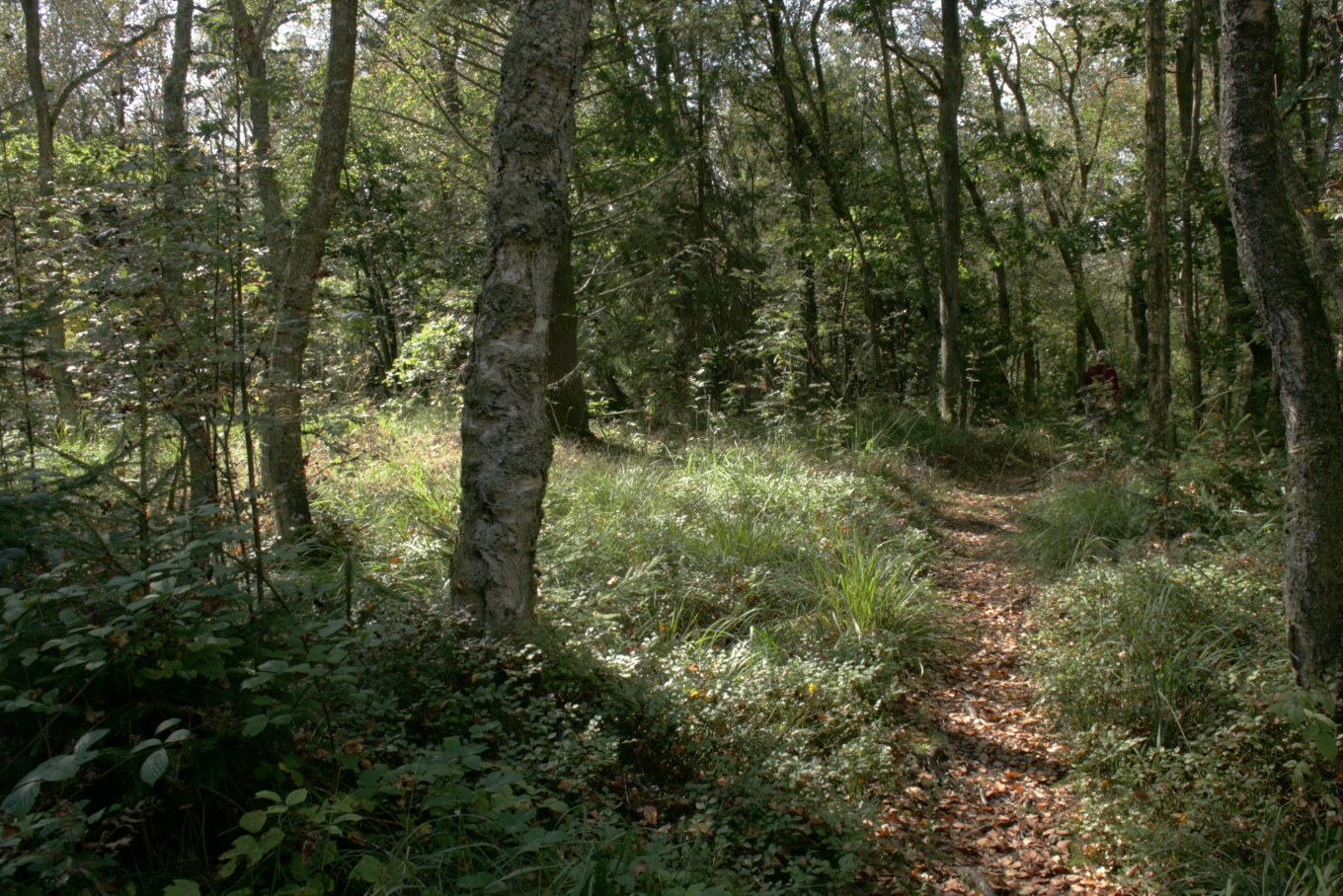 Draved Skov is one of the few Danish natural forests. This is one of the many glades.